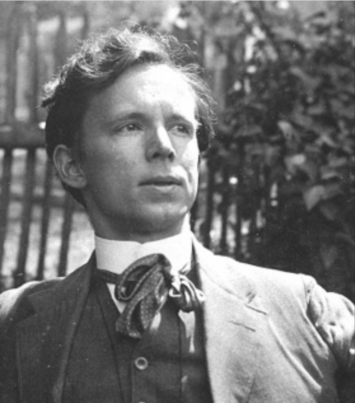 Wilhelm Lehmann (1882–1968), German pedagogue and writer